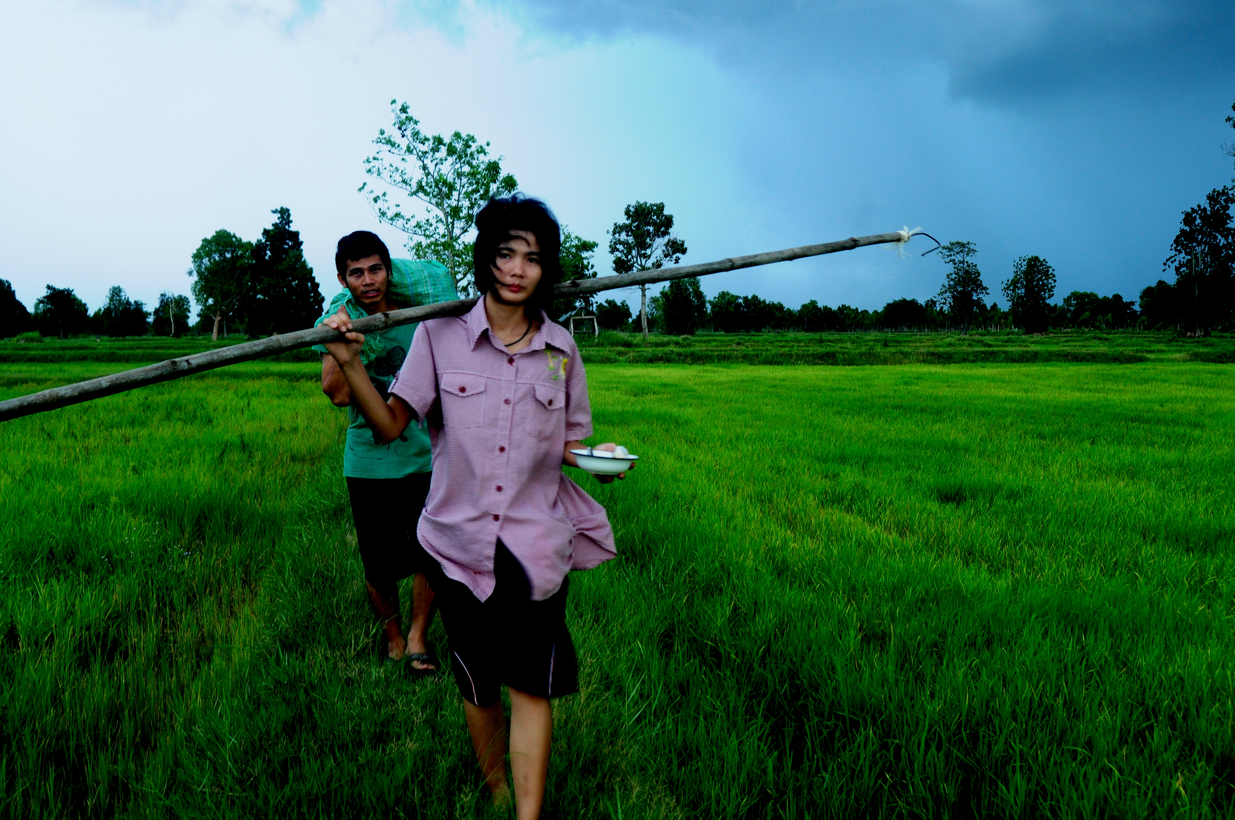 a children lives at BanSuksabai